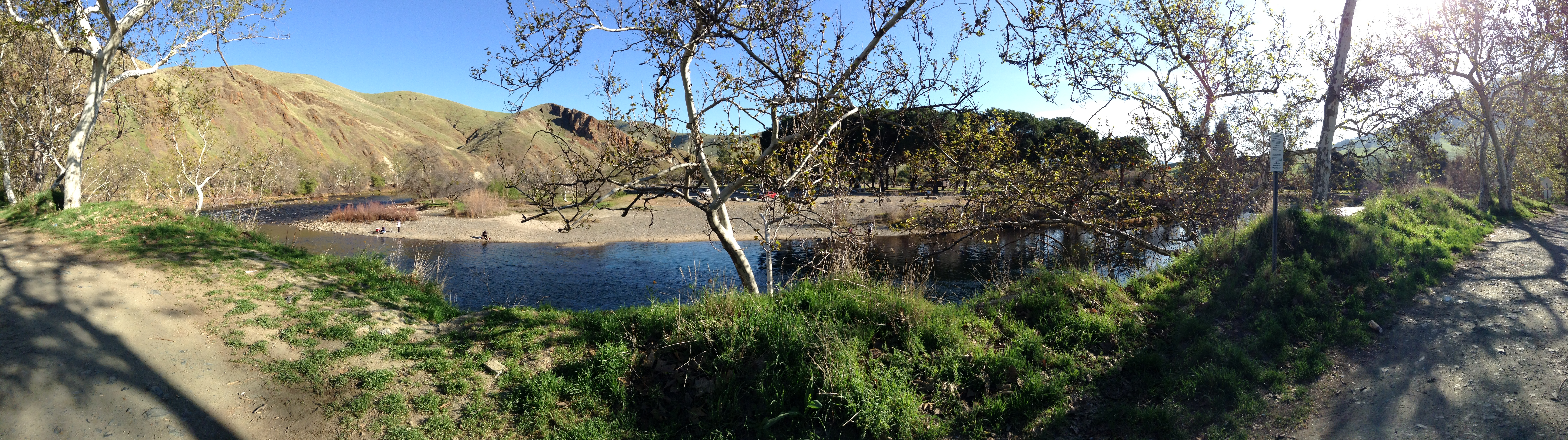 Kings River bend at Winton Park, Fresno County.